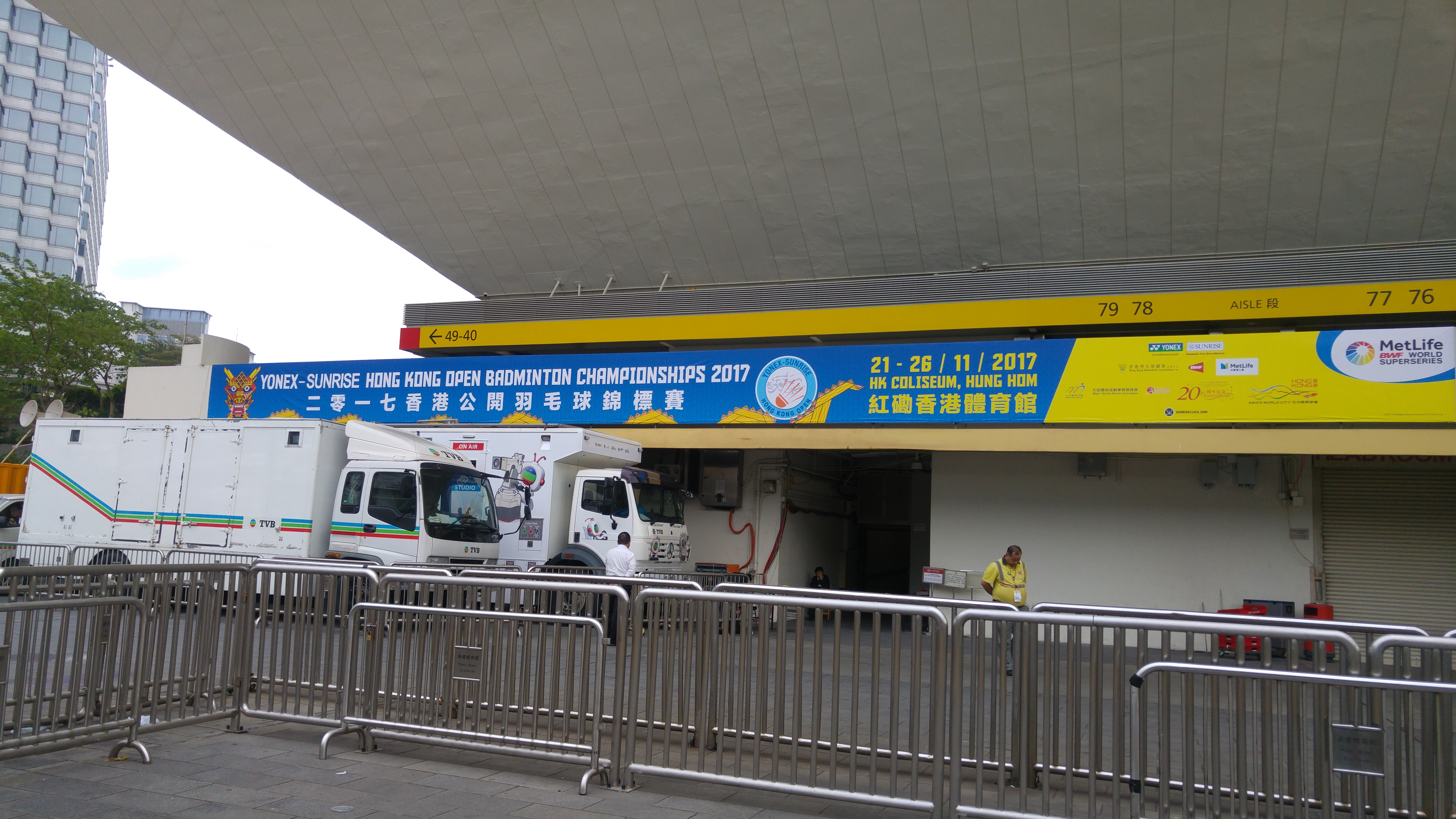 The Venue of Hong Kong Open Badminton Championships 2017 - Hong Kong Coliseum